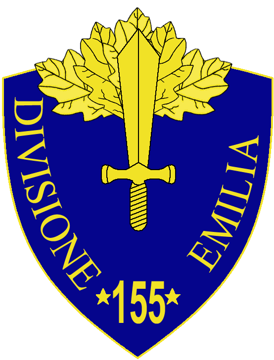 155a Divisione Fanteria Emilia insignia, Regio Esercito, Italy, WWII